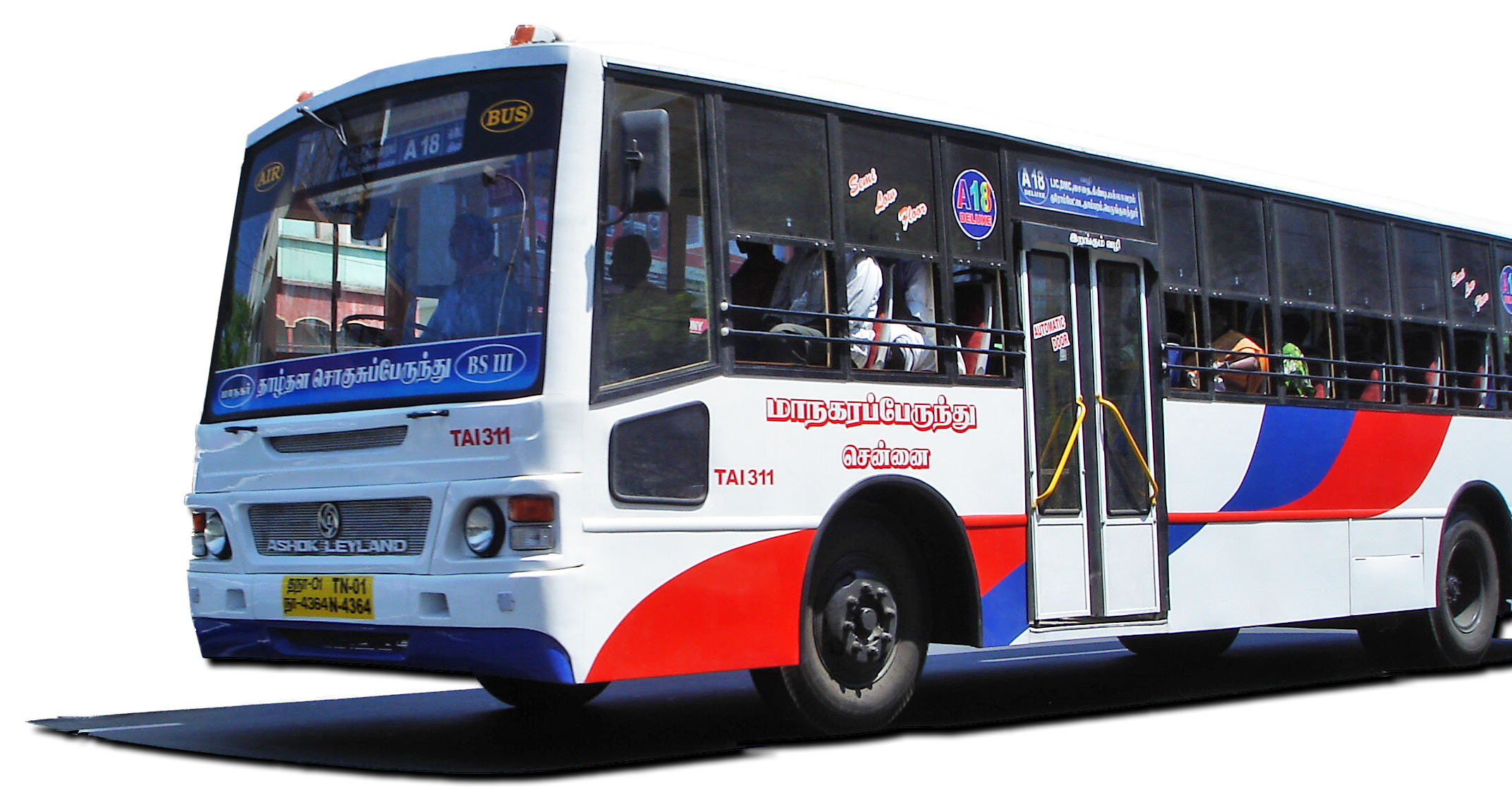 A white line MTC (Chennai) bus.